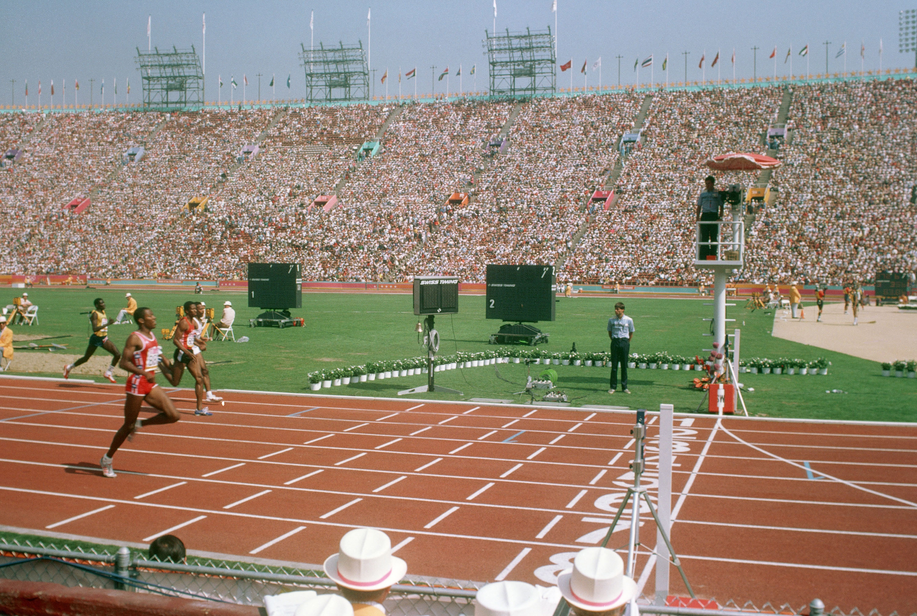 Alonzo Babers, foreground, participates in the 400 meter track and field event at the 1984 Summer Olympics. He finished first in the first heat of that event.